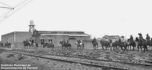 Between 13 and 15 May 1911, the Revolutionists killed 303 Chinese in Torreón, including most of the officers and employees of the CBTWY.